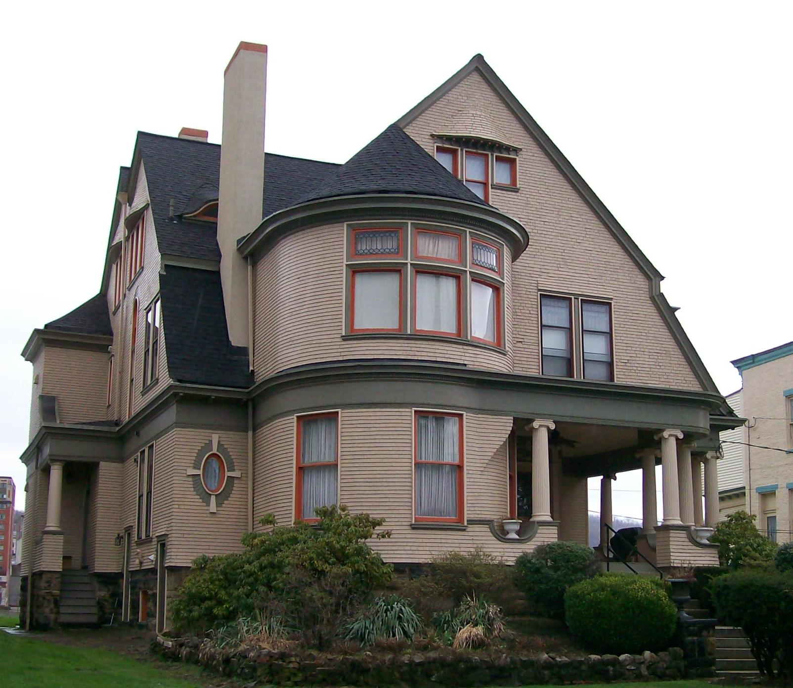 The Harry C. and Jesse F. Franzheim House at 404 S. Front Street on Wheeling Island in West Virginia. The house is pictured from its western facade. The house is on the NRHP. Taken 2010-03-28.